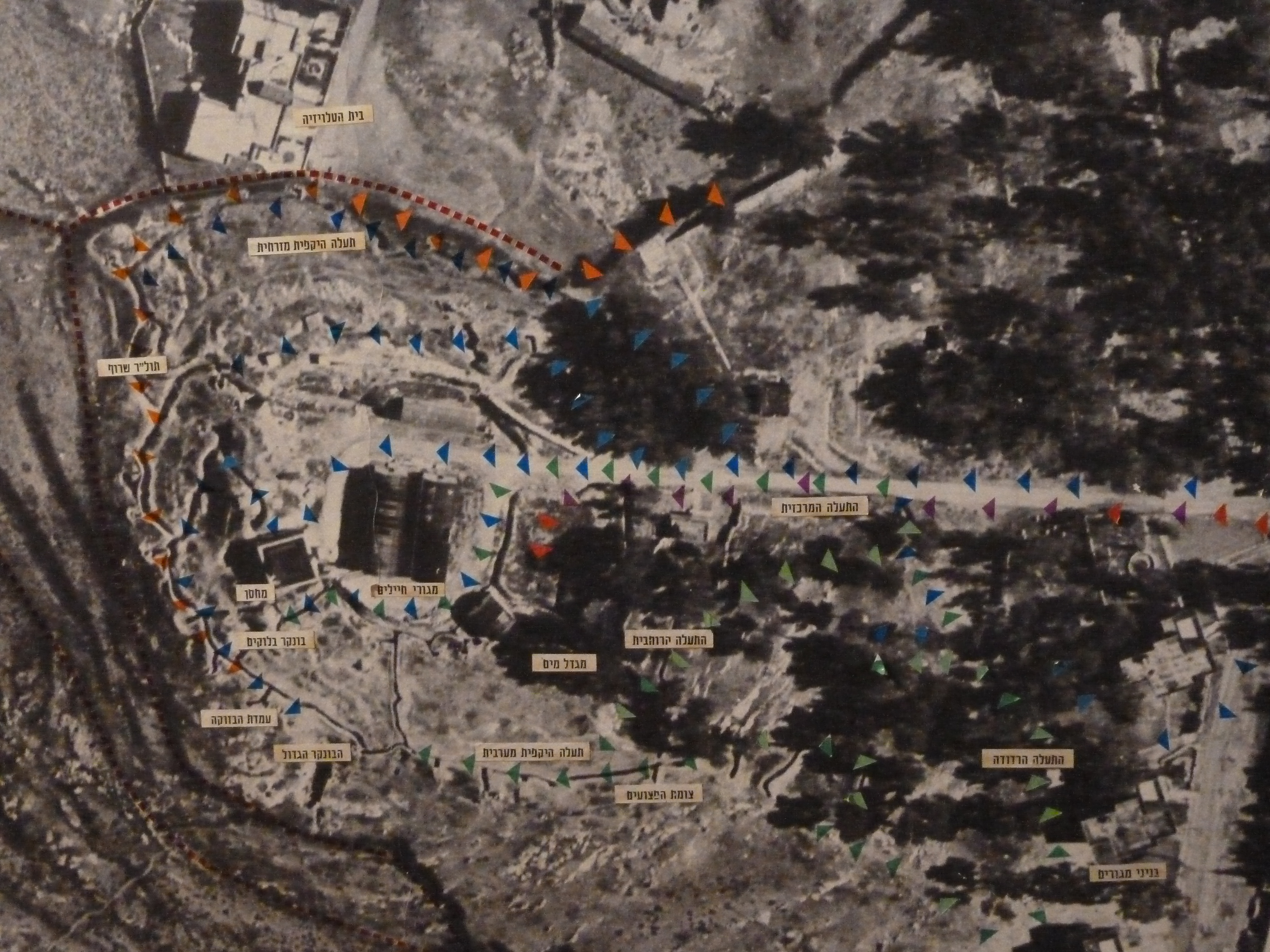 Ammunition Hill Museum Exhibits, Historic Images of Jerusalem